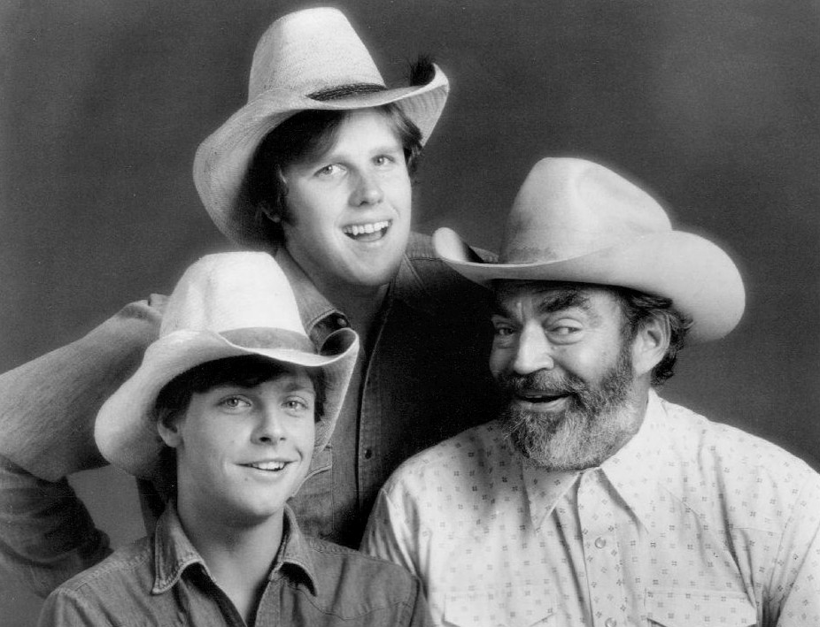 Photo of Gary Busey (standing), Mark Hamill and Jack Elam from the television program The Texas Wheelers.